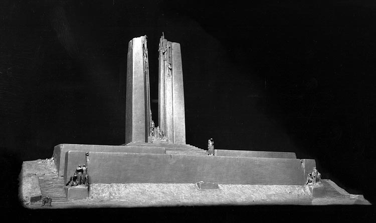 Design model of the monument by Walter Seymour Allward for the Canadian Battlefields Memorials Commission competition that lead to the construction of the Canadian National Vimy Memorial.